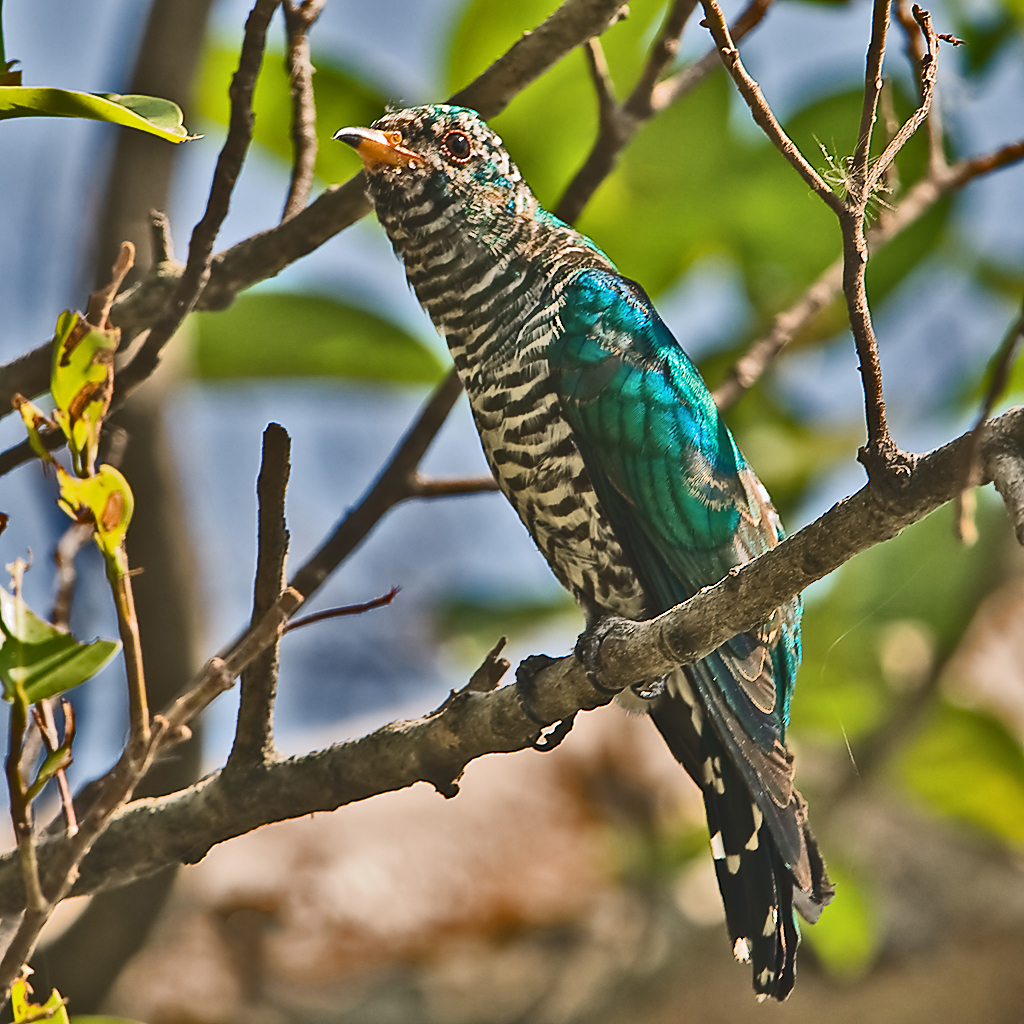 Male Asian Emerald Cuckoo (Chrysococcyx maculatus). Rama IX Park, Bangkok, Thailand. Male